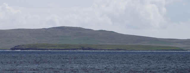 Urie Lingey From the Holm of Heogland, with Fetlar in the background. Shetland Islands.